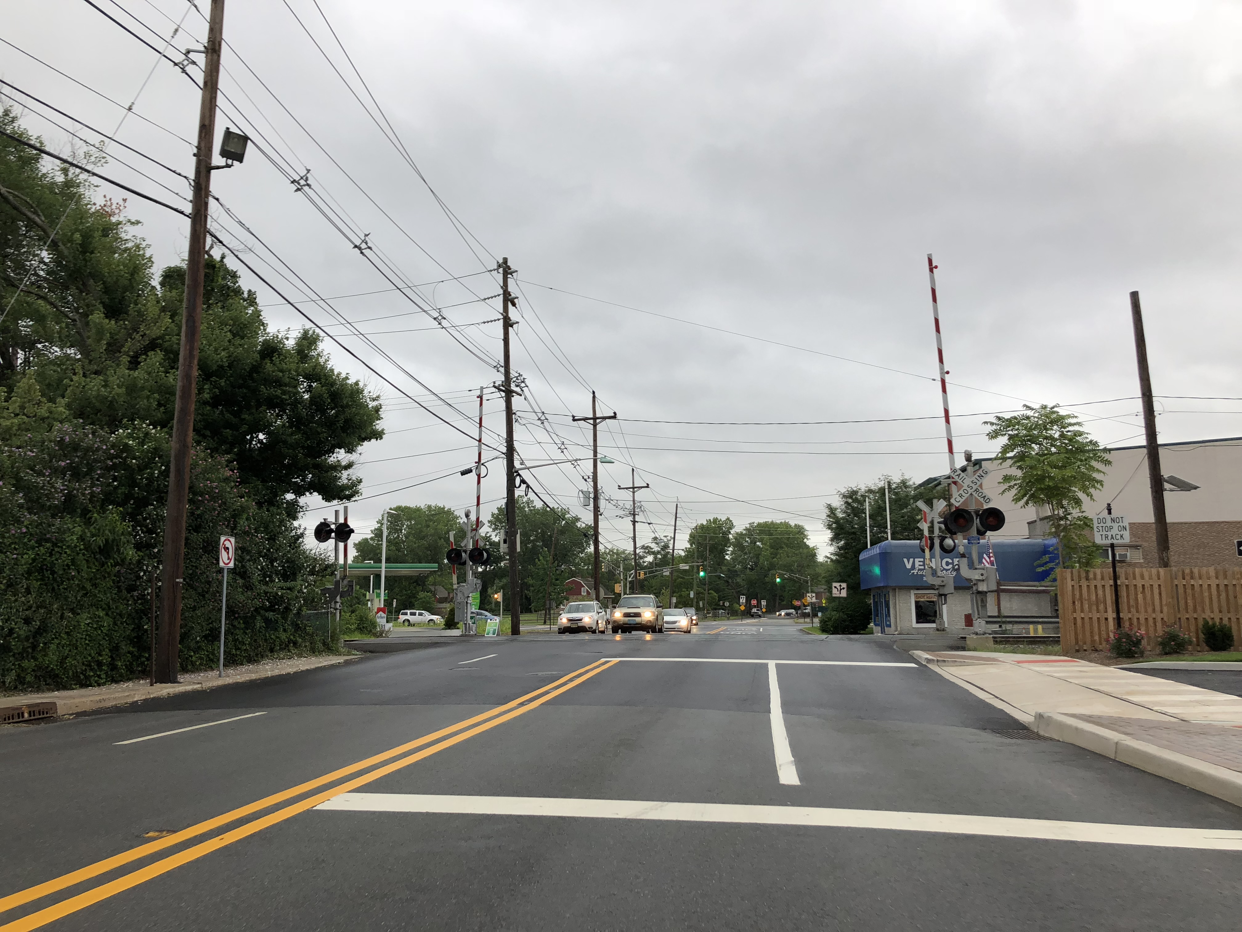 View south along Bergen County Route 503 (Main Street) just south of Elizabeth Street in River Edge, Bergen County, New Jersey